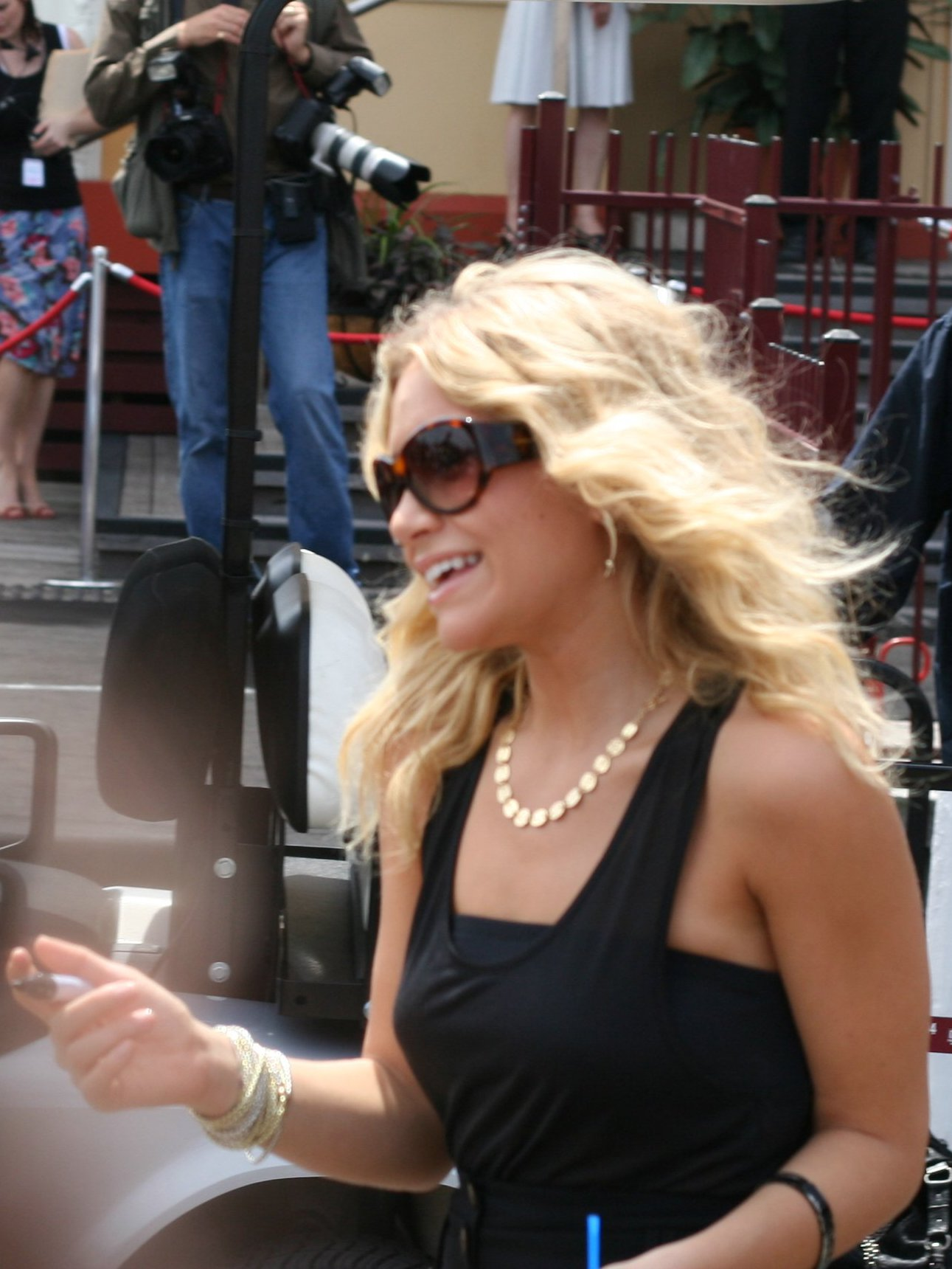 Ashley Olsen at Luna Park, SydneyAshley Olsen